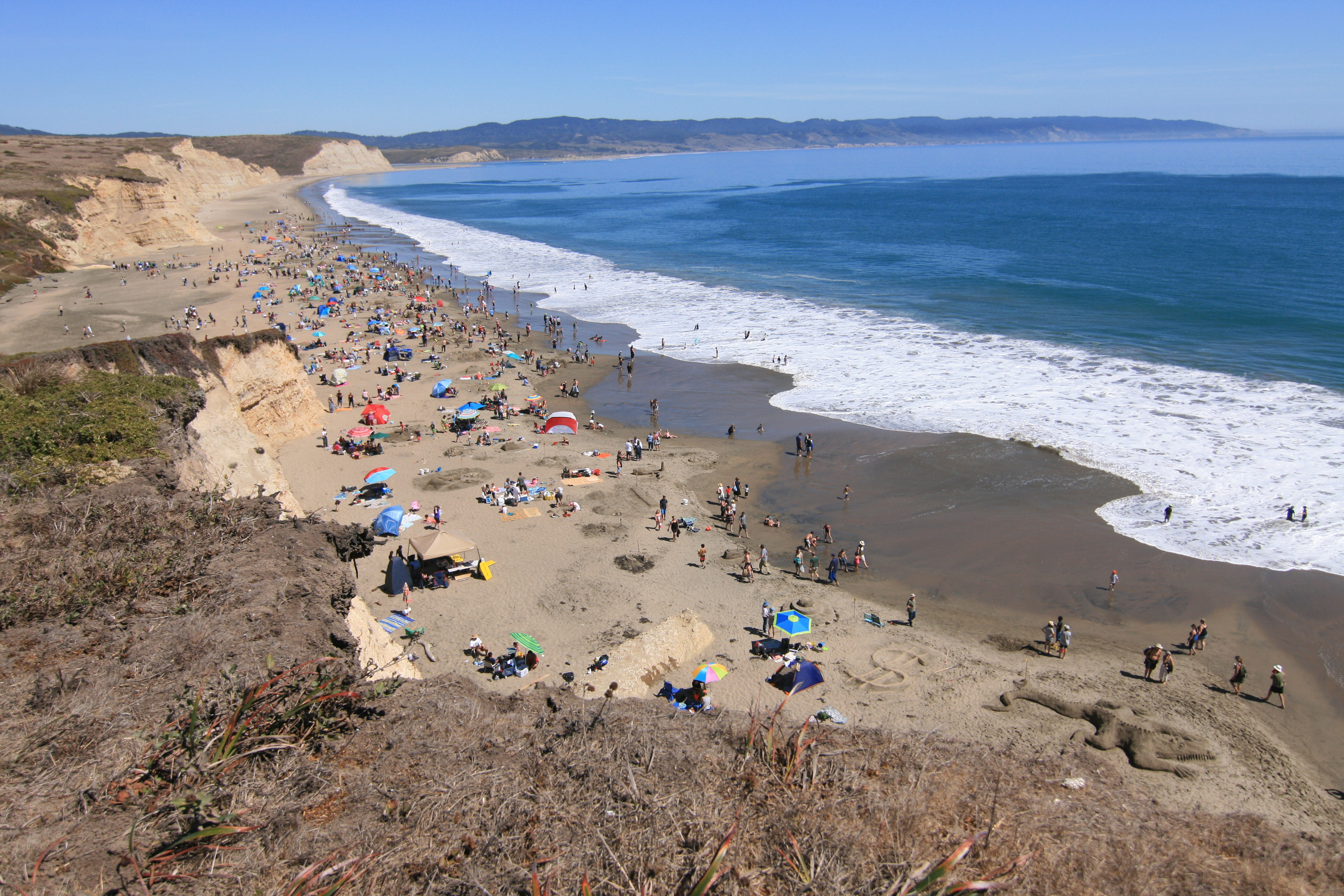 "A view from the Peter Behr Overlook of Drakes Beach during the 2015 Annual Sand Sculpture Contest."